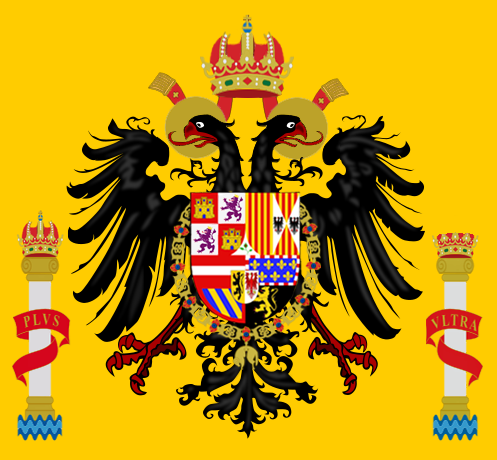 Coat of arms of Roman Emperor Charles V, Charles I as king of Spain